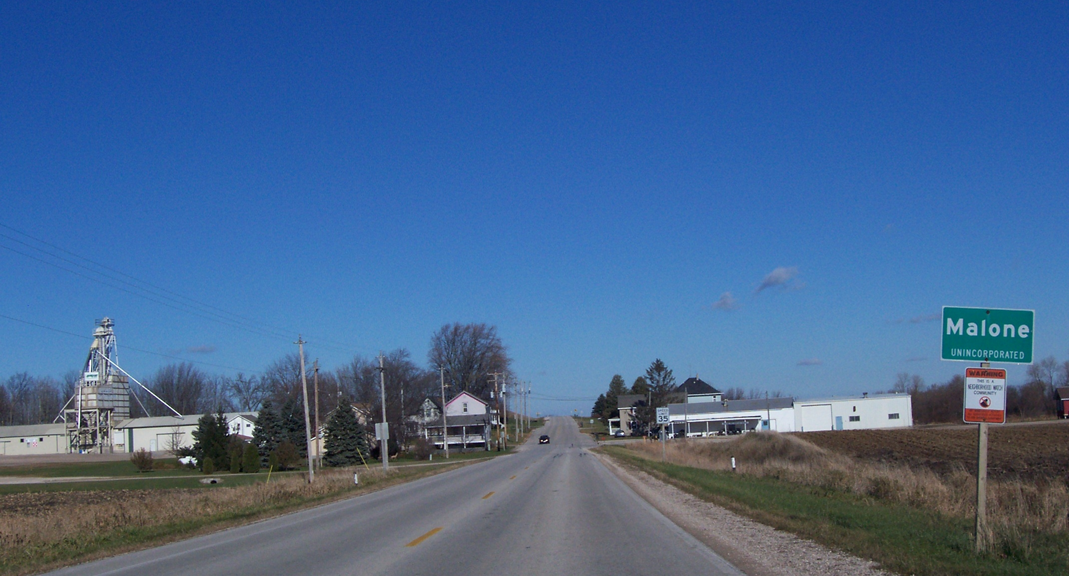 Looking north at Malone, Wisconsin, USA on a county highway.